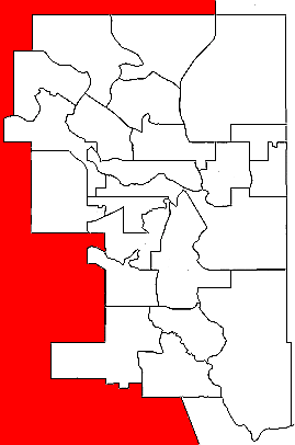 Map showing how borders Calgary ridings under 2004 provincial electoral district boundaries